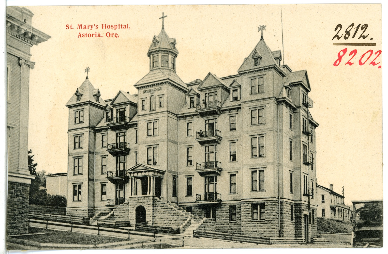 This postcard is from publisher Brück & Sohn in Meißen ( This postcard has a unique number 08202 and is available in a higher resolution at the publisher. This images was uploaded in a cooperation project between Wikipedians and the publisher.